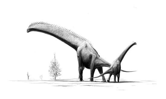 The sauropod dinosaur Giraffatitan brancai by John Conway [1].